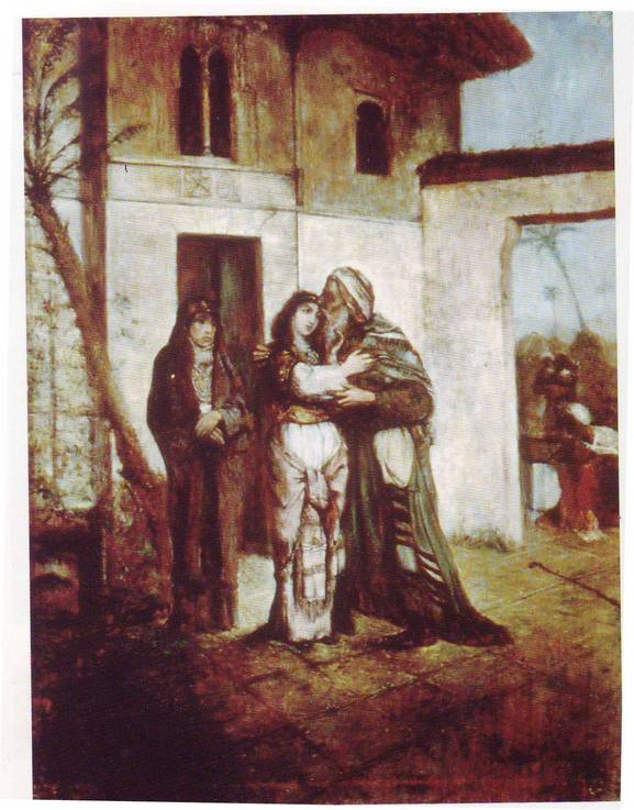 Recha Welcoming Her Father. From an incomplete series of illustrations for the play Nathan the Wise.